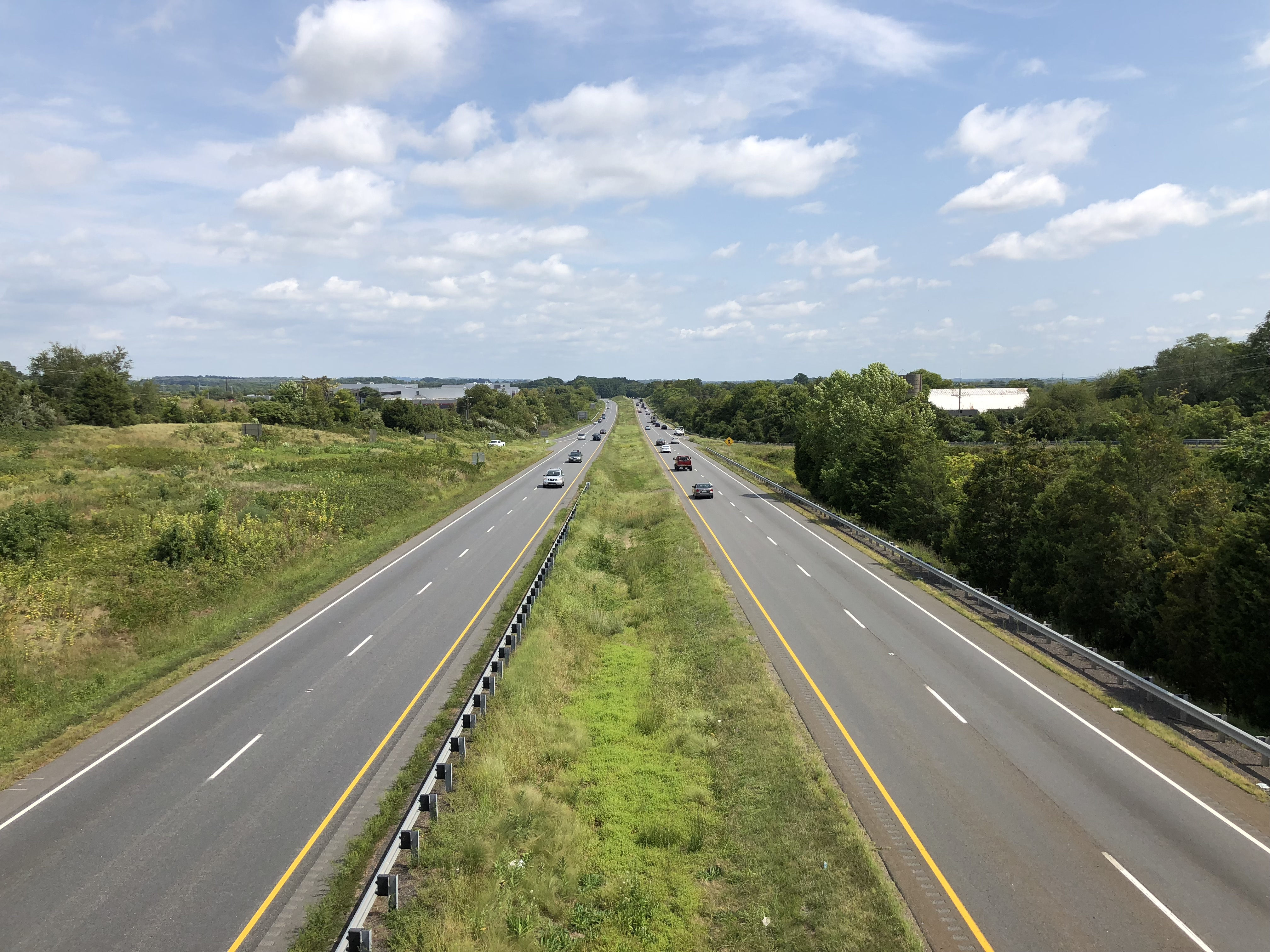 View north along U.S. Route 15 and U.S. Route 29 (James Madison Highway) from the overpass for U.S. Route 522 and Virginia State Route 3 (Germanna Highway) just southeast of Culpeper in Culpeper County, Virginia